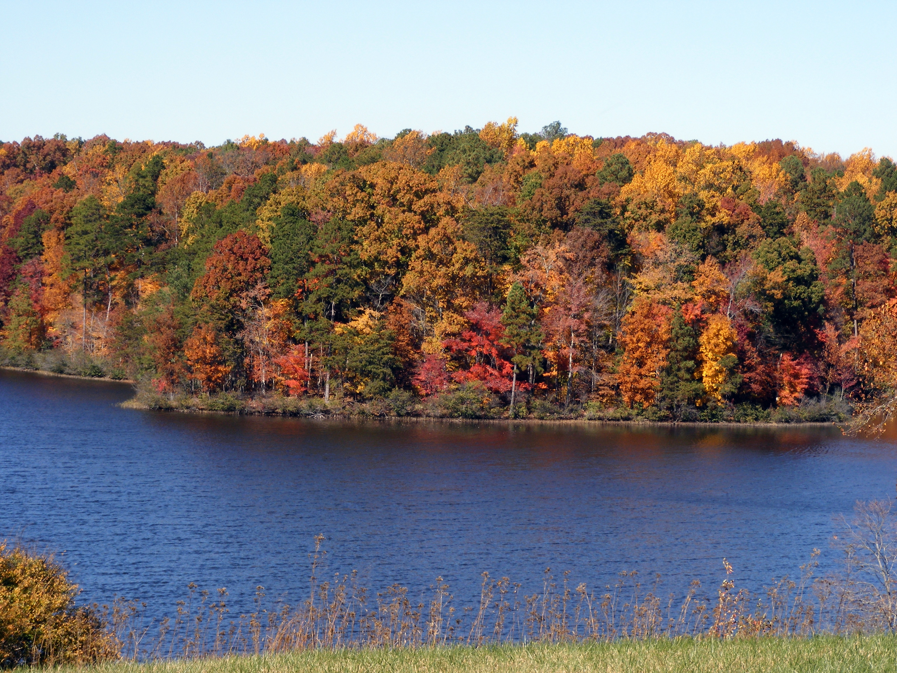 Lake Holt enables Town of Butner to host community events like campfires and July fireworks but also offers great opportunities for fishing!